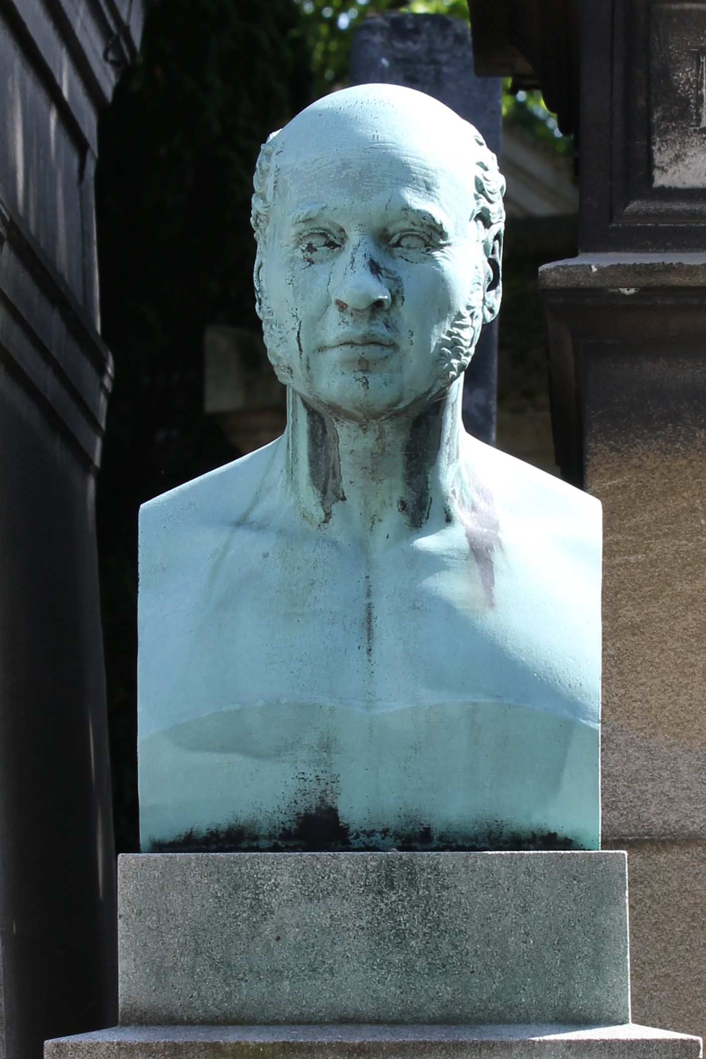 Stone surmounted by a bronze Herma